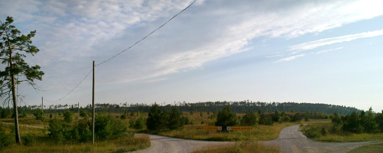 Torsburg, Gotland, SE